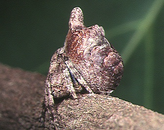 female Poltys illepidus from Okinawa.